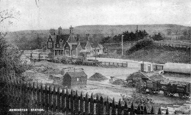 Axminster railway station in Devon from a postcard used in 1905. At this time the line was owned by the London & South Western Railway with train services from London (right) to Exeter, Plymouth and Cornwall (left).